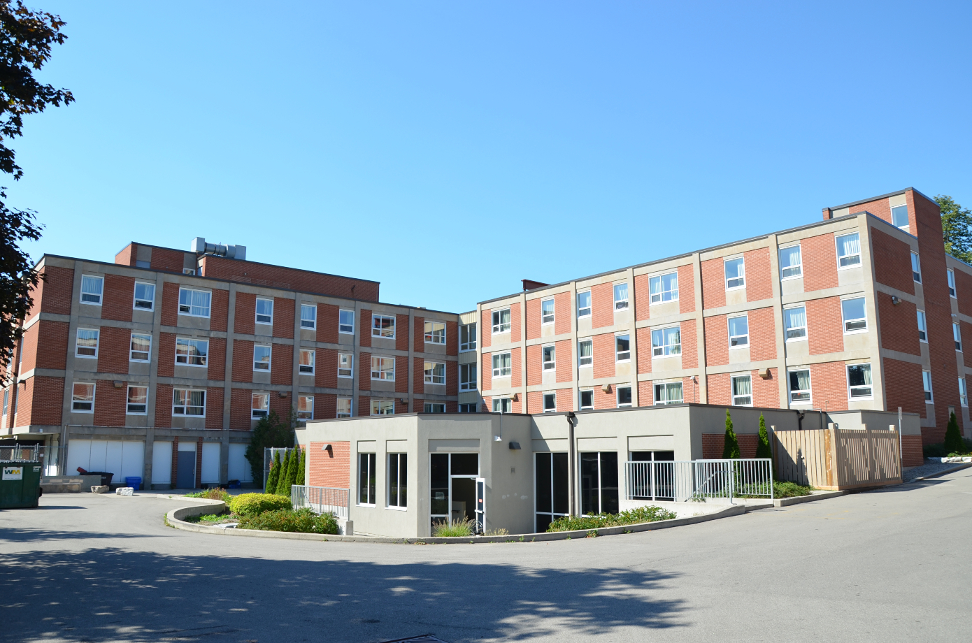 Pine Boys Residence, Columbia International College